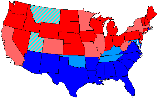 Summary of party control of U.S. house seats in the 80th United States Congress following election. Stripes indicate a tie between two or more parties. Legend: 80.1-100% Democratic seat majority 60.1-80% Democratic seat majority 60% or less Democratic seat plurality 60% or less Republican seat plurality 60.1-80% Republican seat majority 80.1-100% Republican seat majority